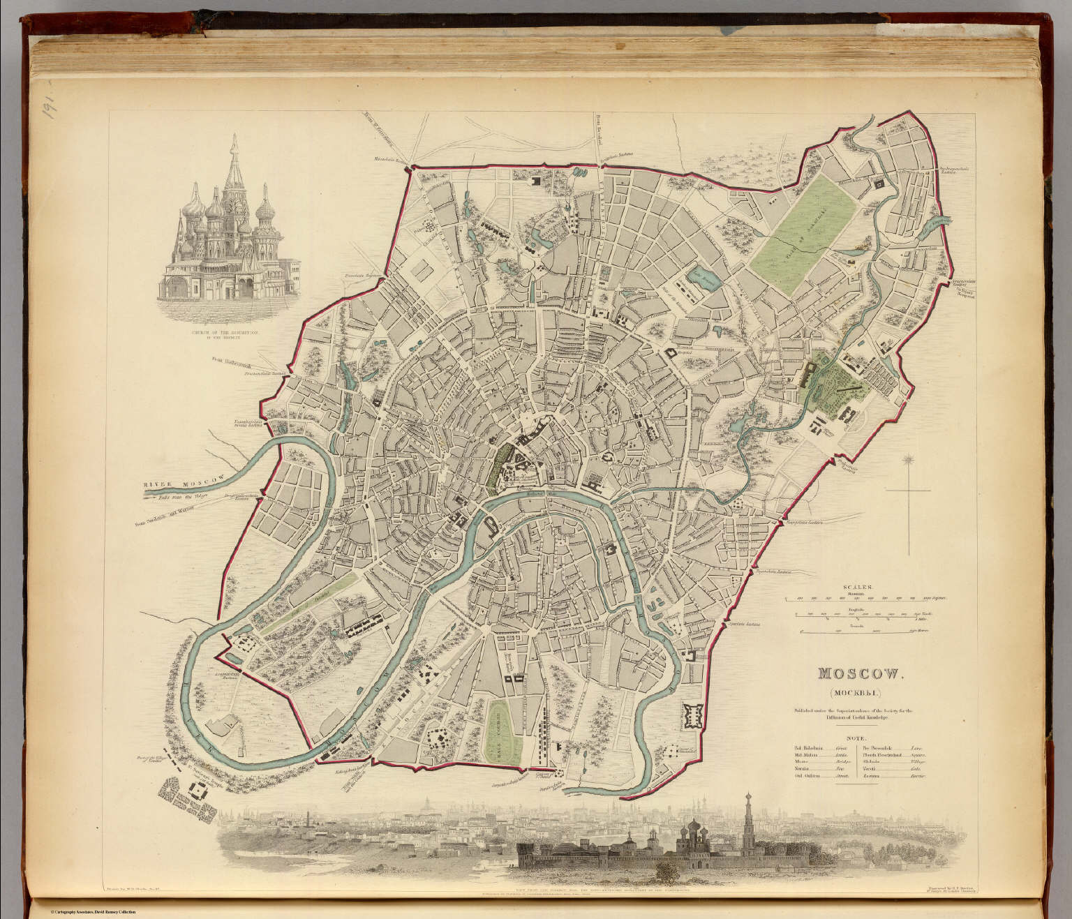 Map of Moscow, 1836. Has English description.